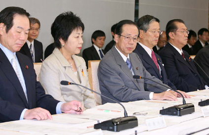 Nobutaka Machimura, Chief Cabinet Secretary, attended a meeting of the Council for Gender Equality, Cabinet Office with Yasuo Fukuda, Prime Minister, at the Prime Minister's Official Residence in Chiyoda Ward, Tōkyō Metropolis on October 30, 2007.